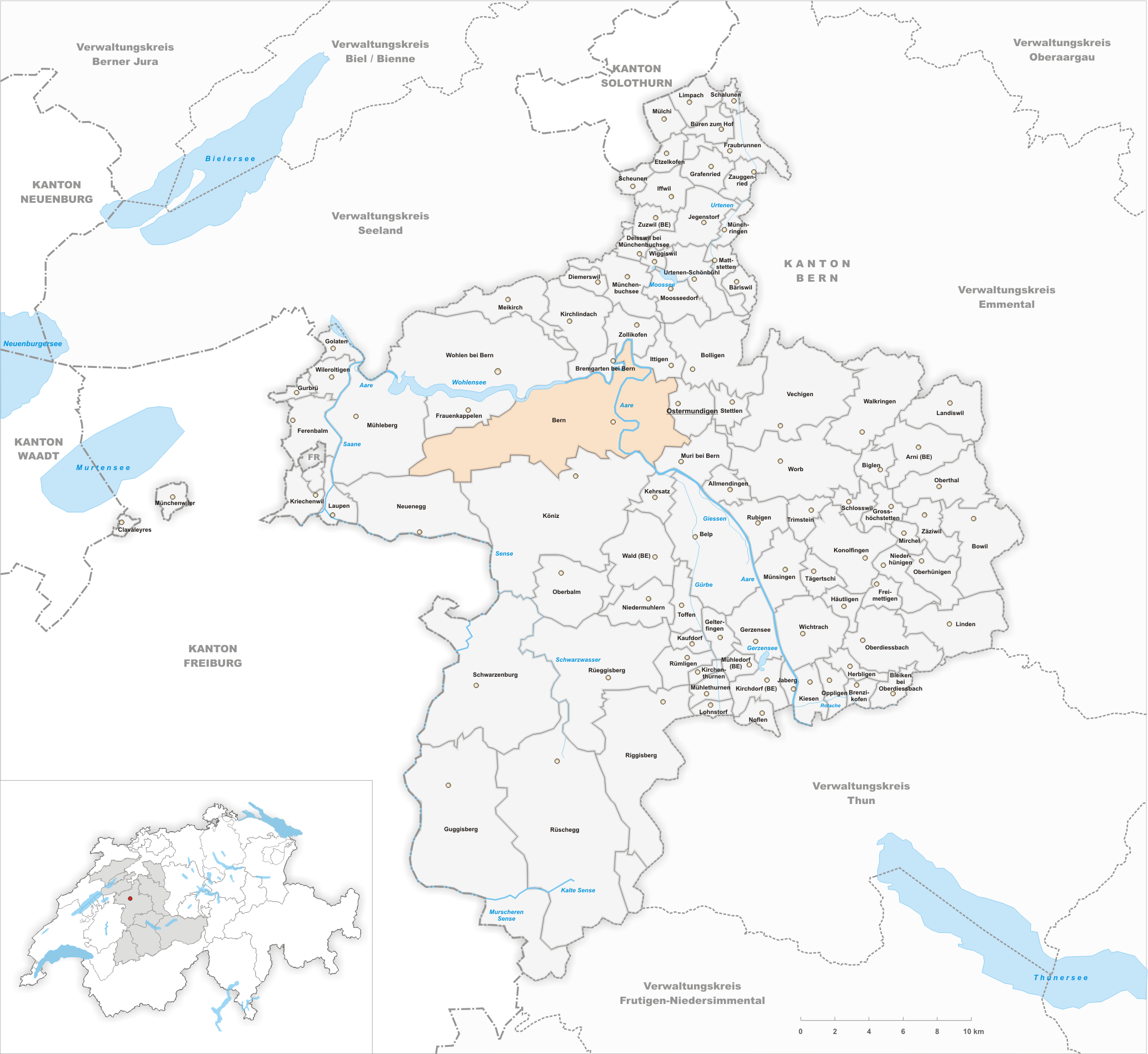 Municipality Bern